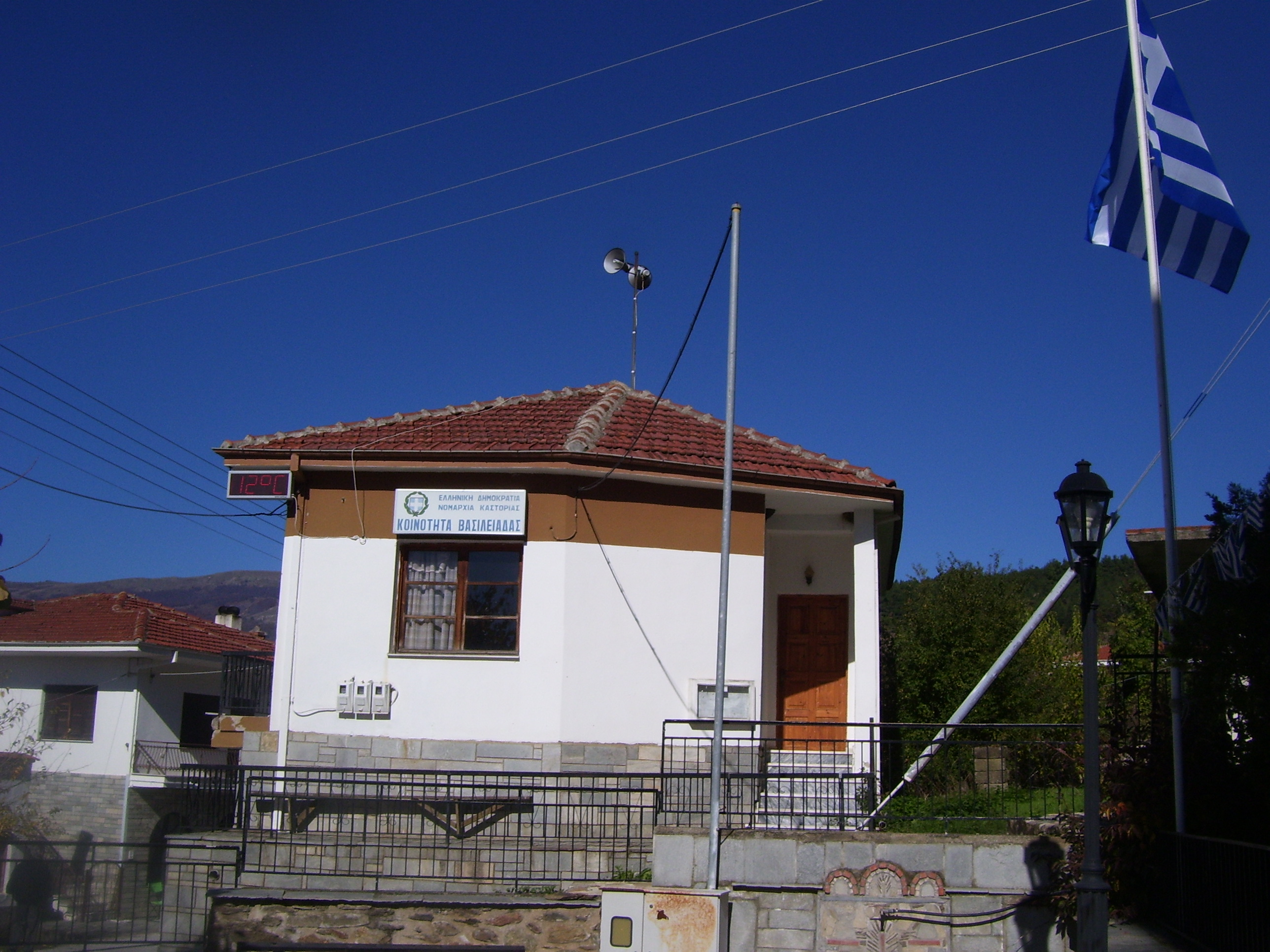 The communal building in Vasiliada, Kastoria Prefecture